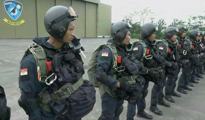 Paskhas para-commandos